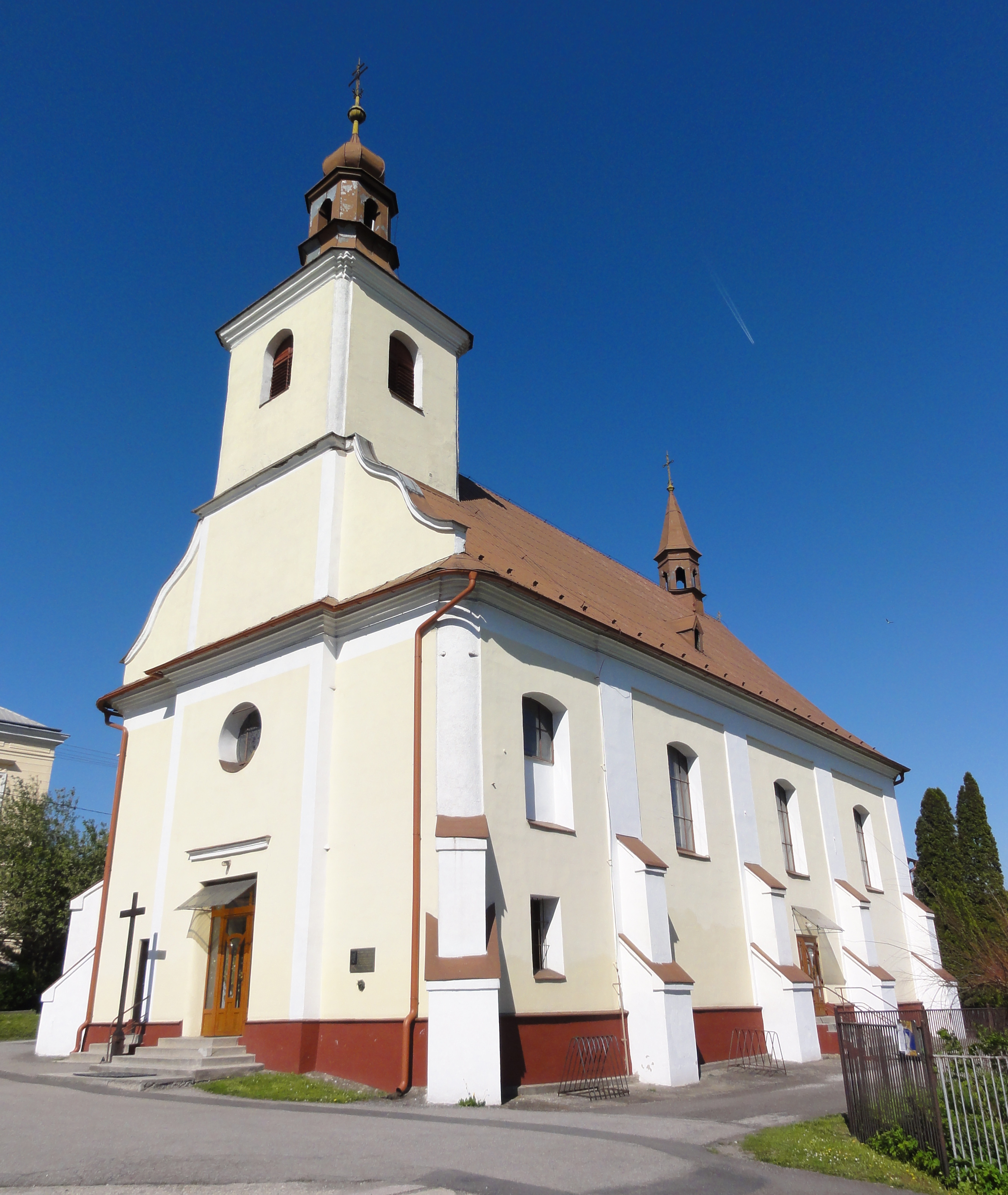 Church of Saint Martin in Petrovice u Karviné